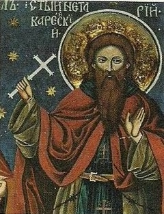 Saint Nectarius from Bitola fresco from Zograf Monastery